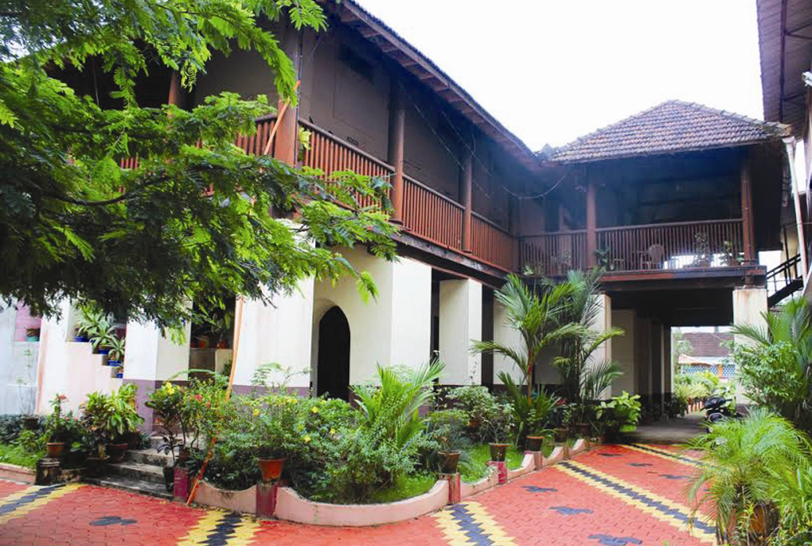 Peet Memorial Training College is one of the pioneering teacher education institutions in India, that was established in 1960.